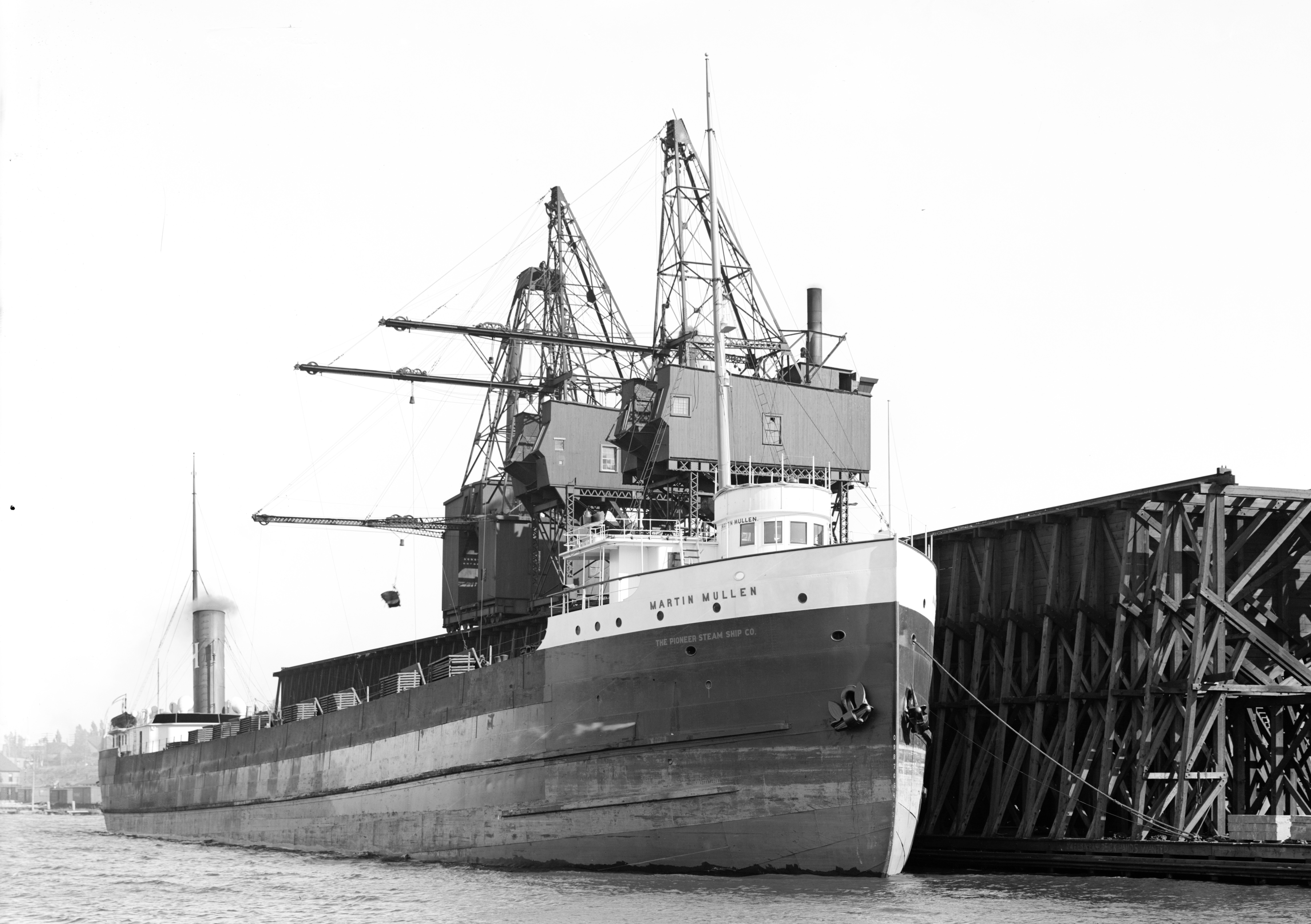 The Str. Martin Mullen in Houghton, Michigan around 1906